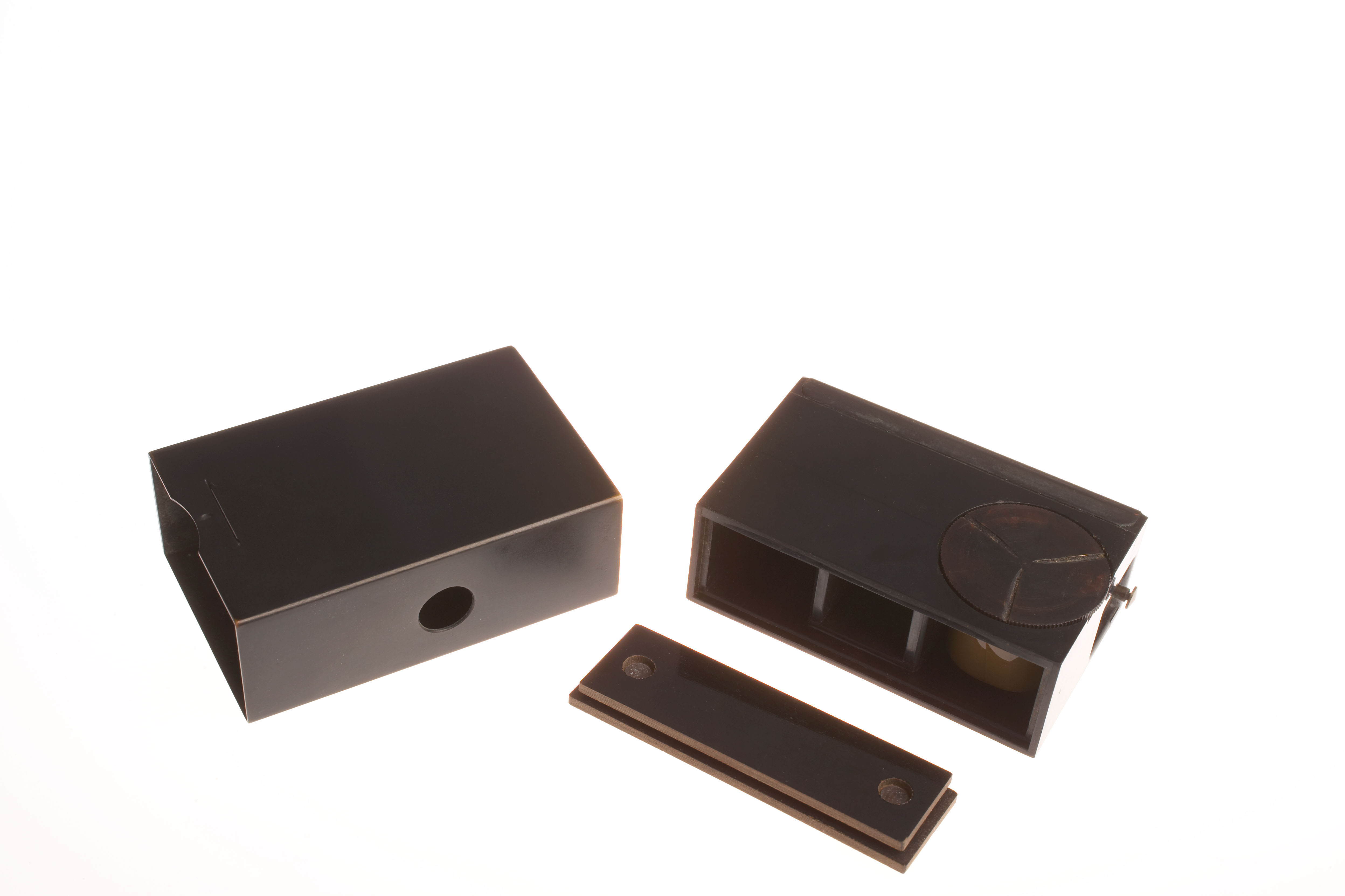 The Eastman Kodak Company developed and manufactured this camera for use by the Office of Strategic Services (OSS). It was made in the shape of a matchbox of that era. It could be disguised by adding a matchbox label appropriate for the country in which it was to be used.